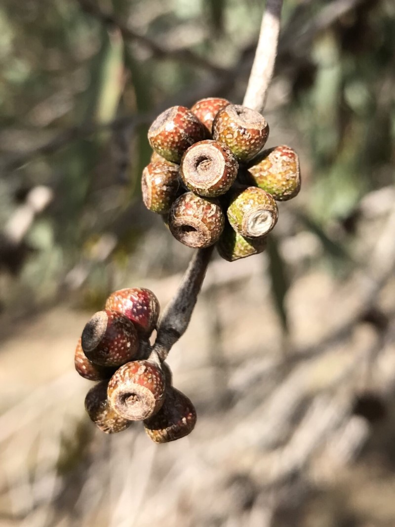 Fruit of Eucalyptus stellulata at Bungendore, New South Wales